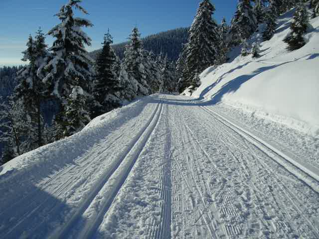 Loipe am Mordfleck, Thuringia, Germany